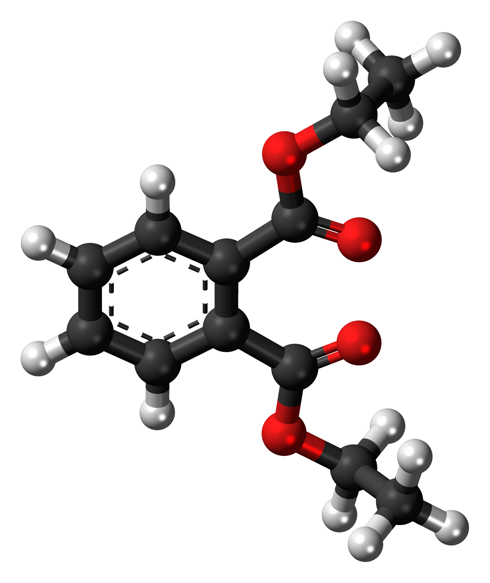 Ball-and-stick model of the diethyl phthalate molecule, the ester of ethanol and phthalic acid. Colour code: Carbon, C: black Hydrogen, H: white Oxygen, O: red